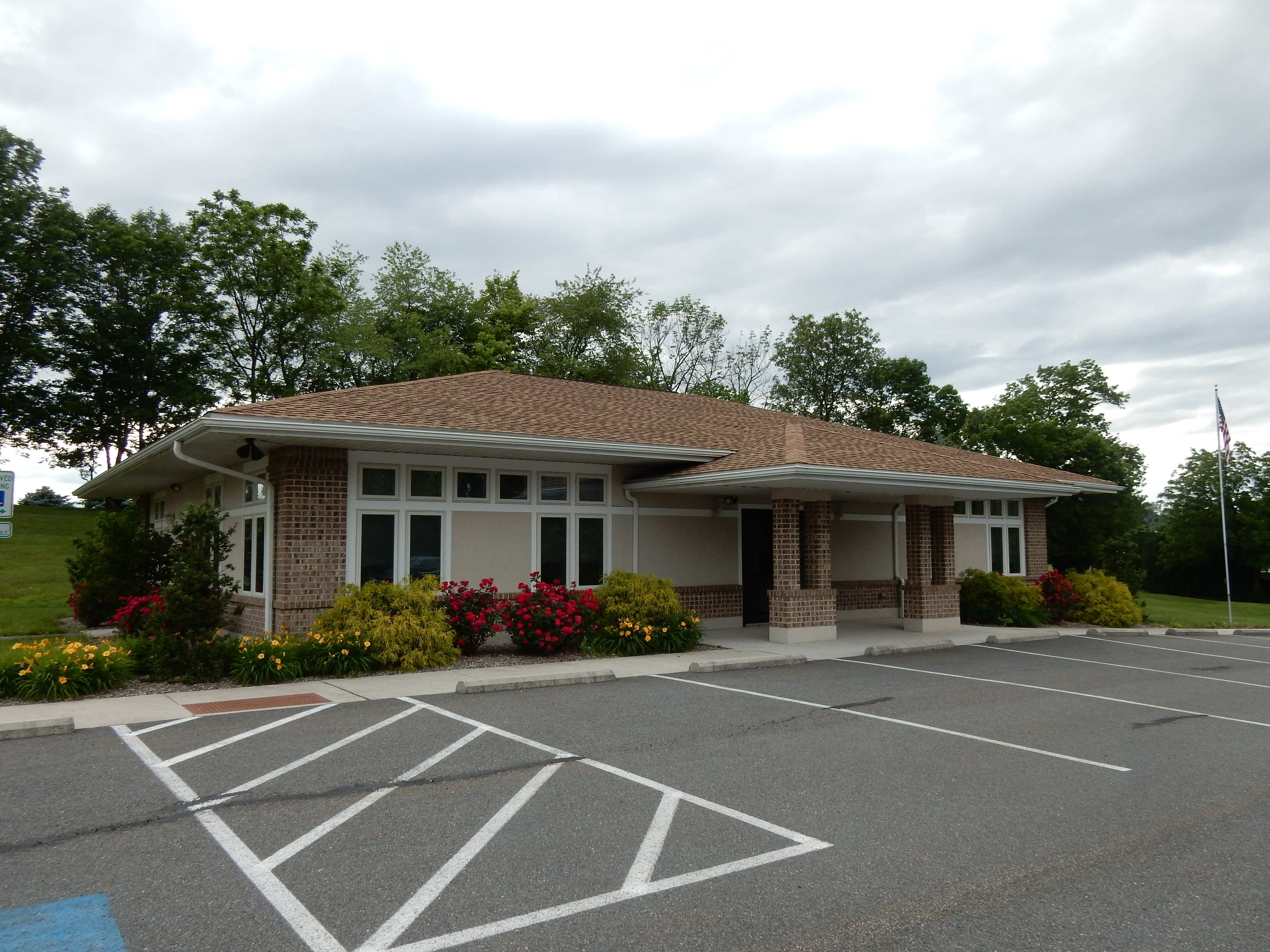 Jefferson Township, Berks County, Pennsylvania. Twp. Municipal Building, 5 Solly Lane, Bernville, PA.